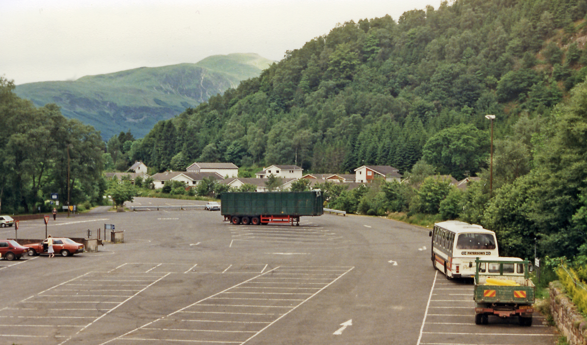 Site of Callander station. View NW, towards Balquhidder and Oban: ex-Caledonian Railway Dunblane - Callander - Balquhidder - Oban line, which closed Callander - Balquhidder from 28/9/65 after a disastrous landslide near Balquhidder, goods traffic from the east continuing to Callander until 1/11/65. In the background towers Beinn Bhreac (2,306 ft.).